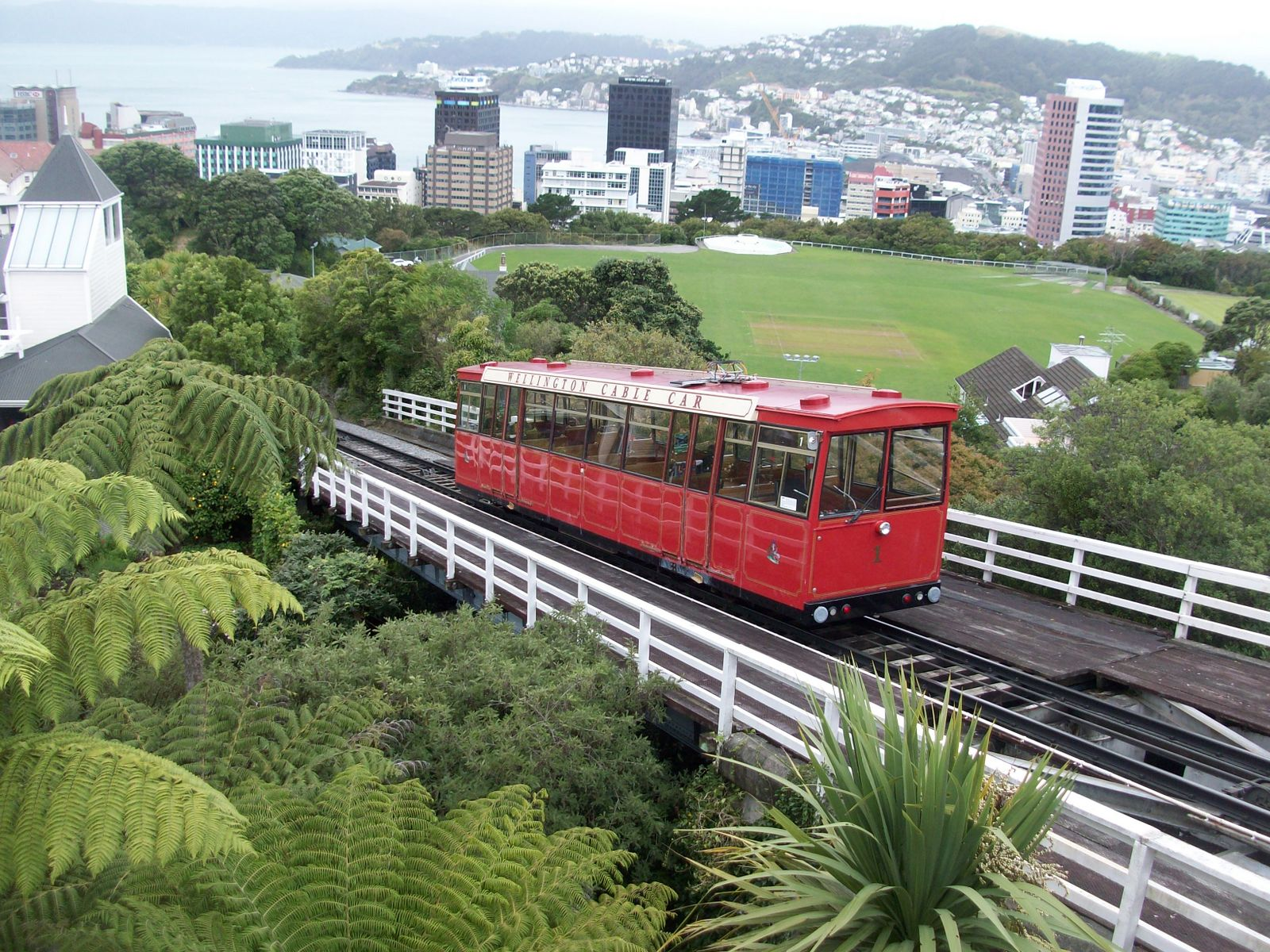 Cable Car, Wellington, Nueva Zelanda